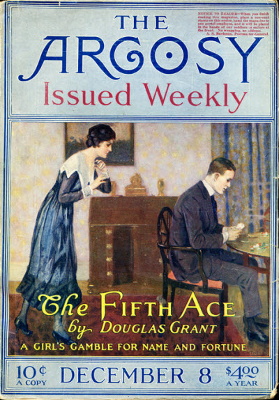 The Argosy, December 8, 1917